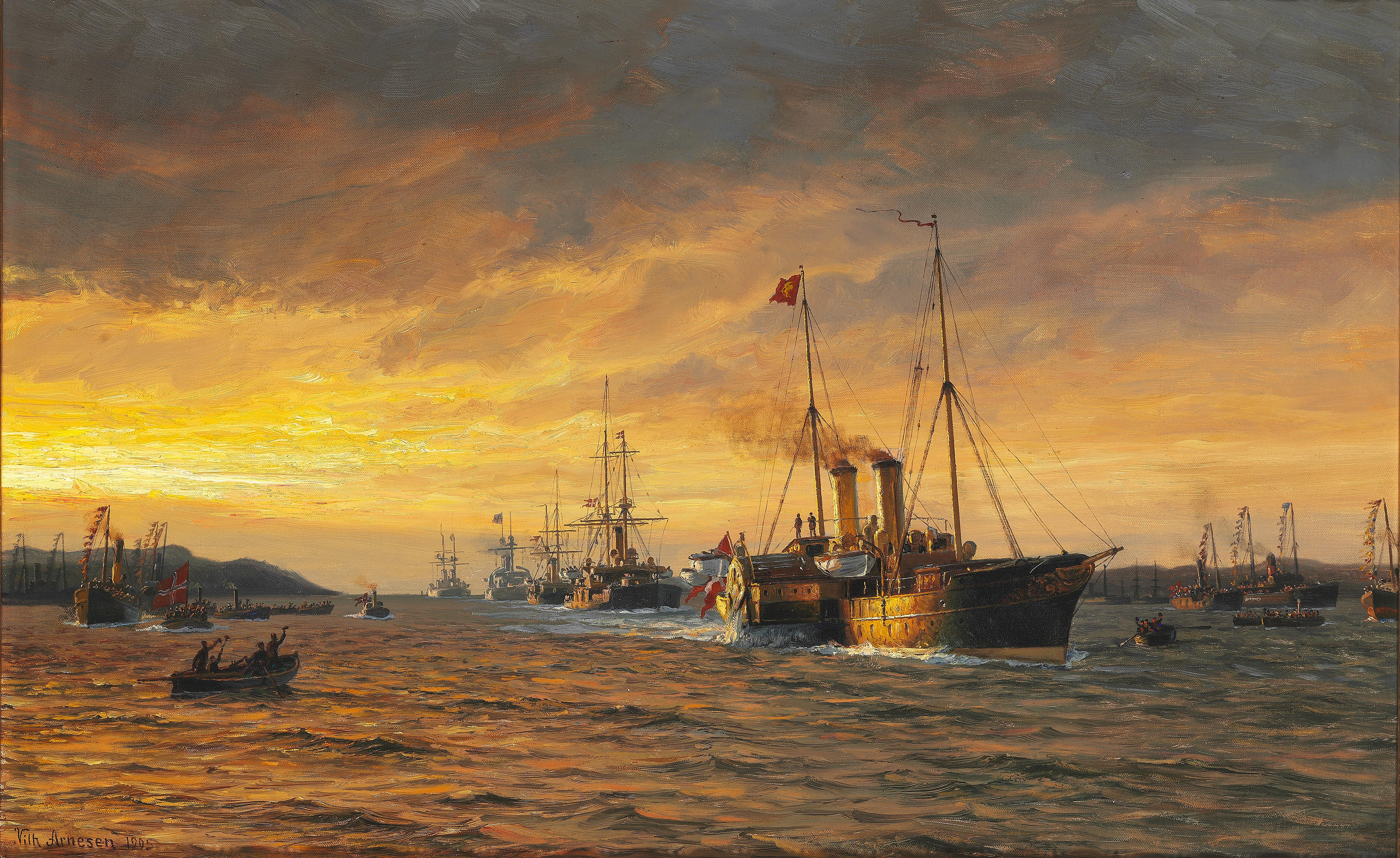 The paintings shows the Danish Royal Yacht Dannebrog, escorted by the Danish naval ships Olfert Fischer and Geiser and joined by two Norwegian coastal defence ships.